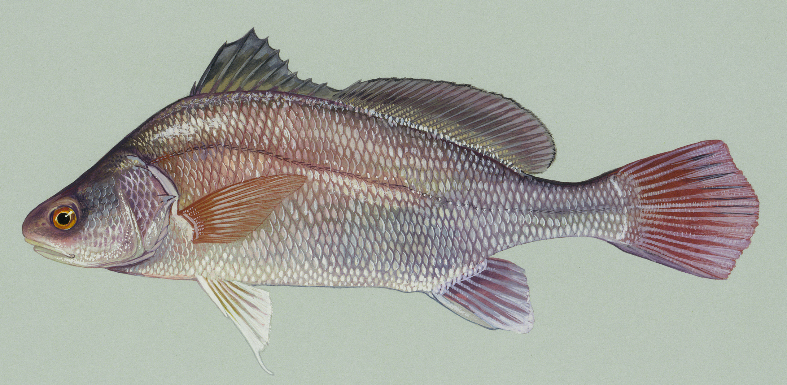 Drawing by Duane Raver.